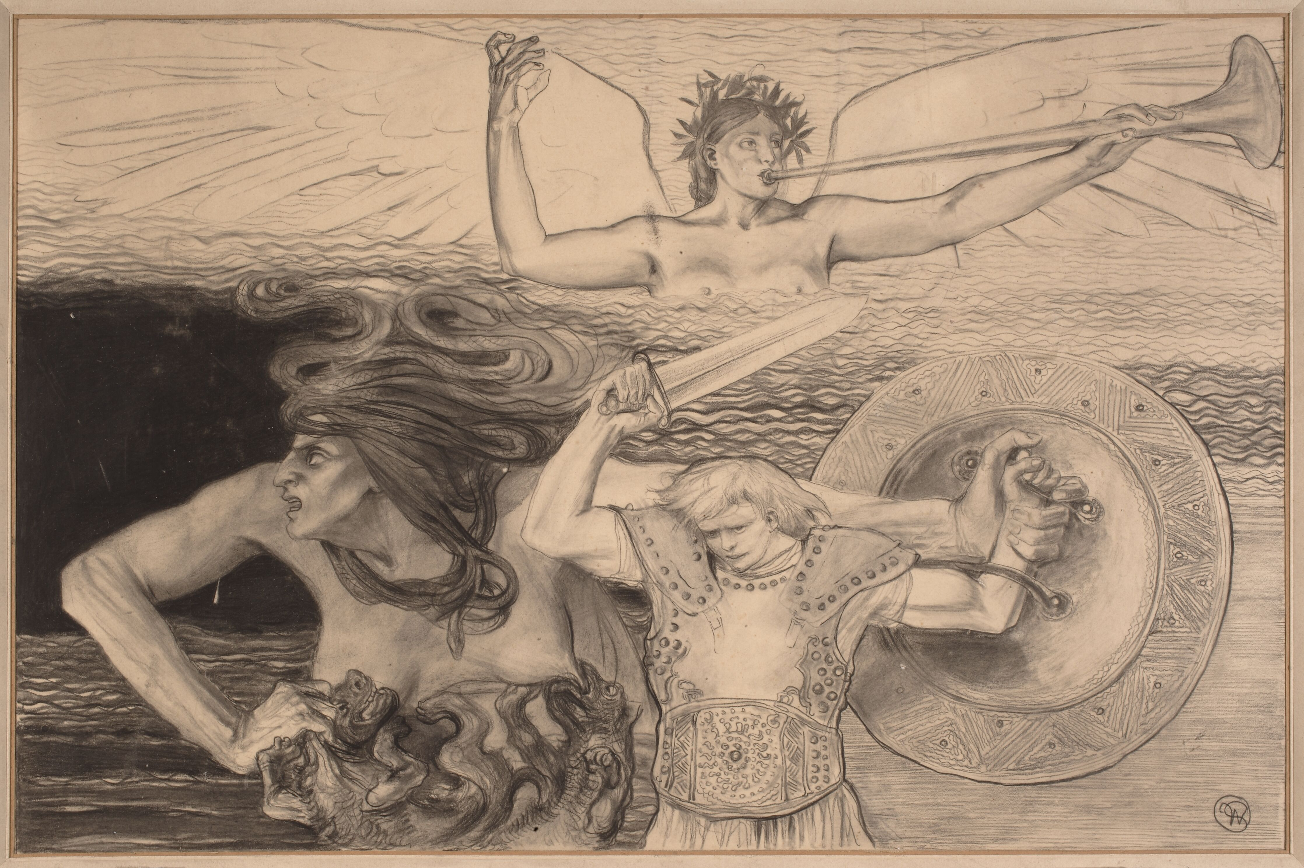 Achilles' wrath, pencil drawing, 29.1 x 44.2 cm, The National Museum in Warsaw.